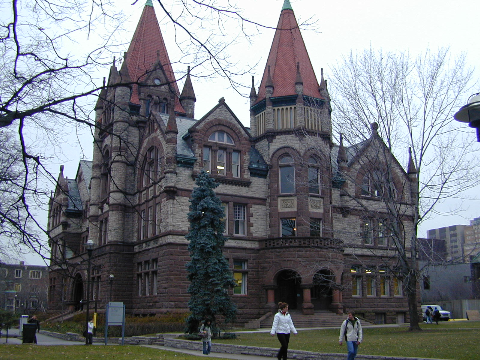 The main Victoria College building, known as Old Vic, on the campus of Victoria University, University of Toronto. Photo by paradiso. (Mislabeled as Northrup Frye Hall)